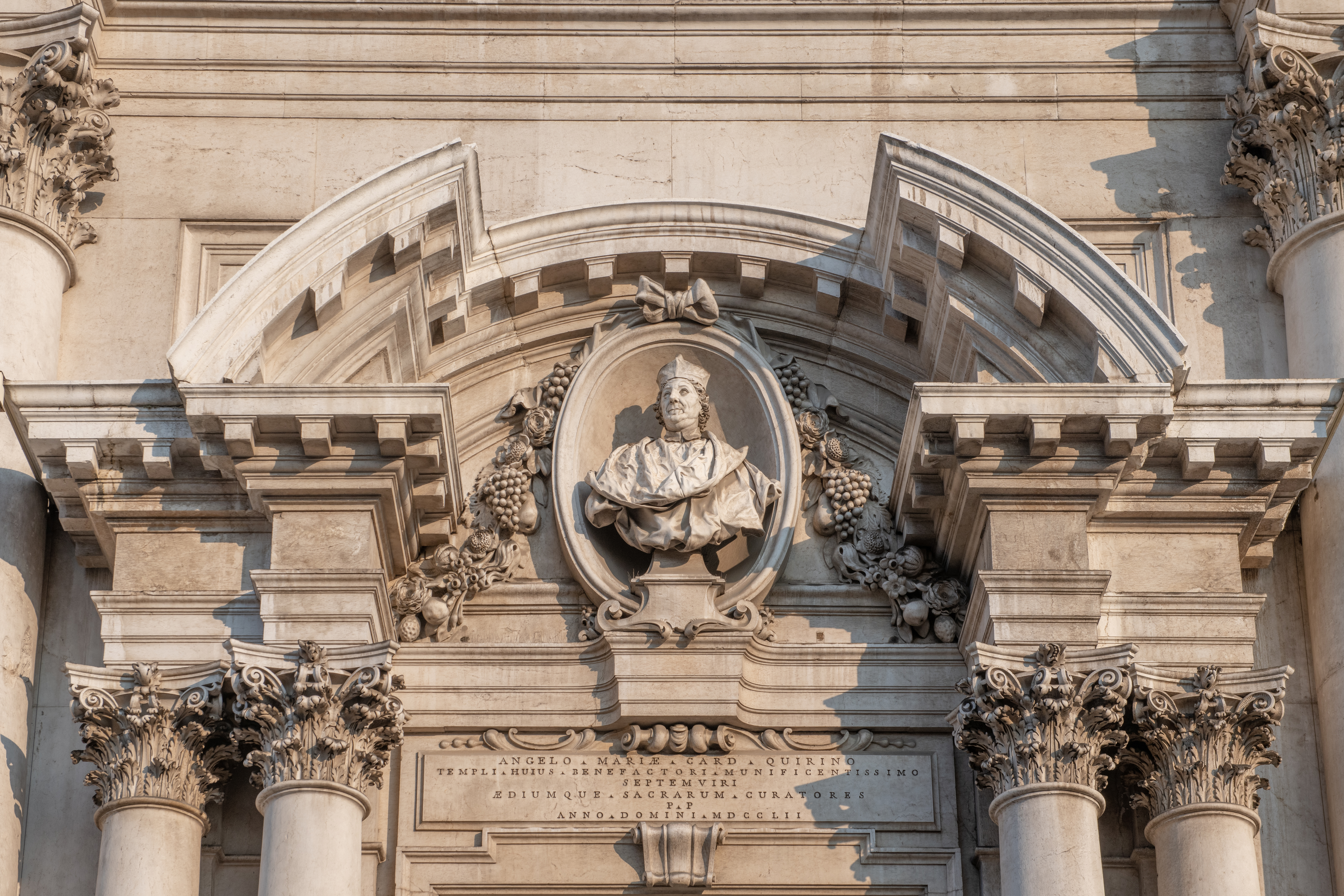 Detail of the Entrance to the new Cathedral in Brescia - Bust of bishop Quirini by Antonio Calegari.